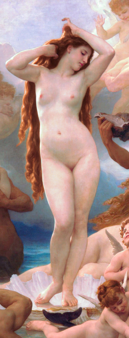 Detail from The Birth of Venus by William-Adolphe Bouguereau Oil on canvas Dimensions: 300 cm × 218 cm (120 in × 86 in) Location: Musée d'Orsay, Paris